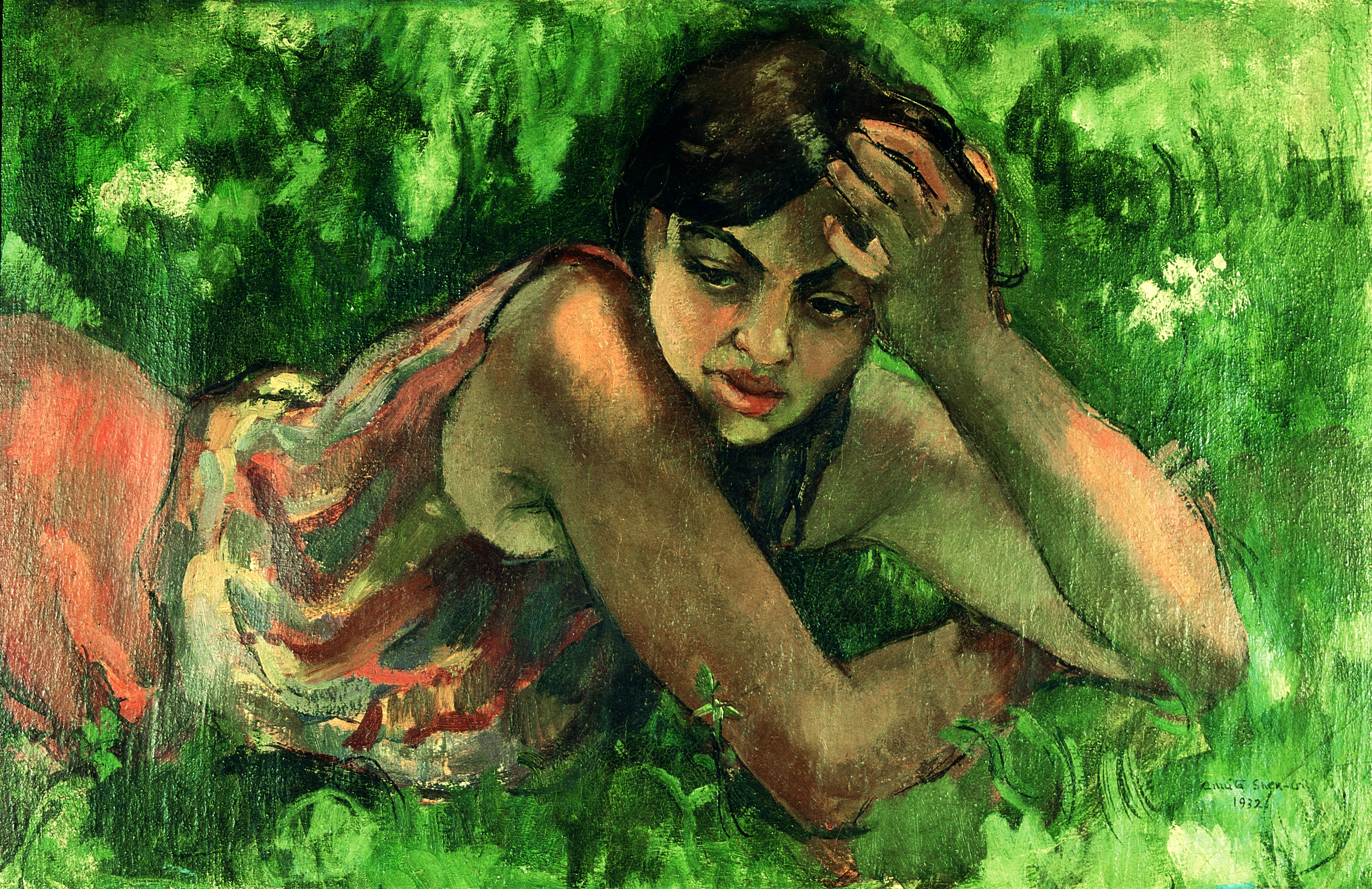 Hungarian gypsy girl, by Amrita Sher-Gil, done in 1932 during a summer vacation at the Hungarian village, Zebegery. National Gallery of Modern Art (NGMA), New Delhi. Oil on Canvas, 82 X 54 cm.